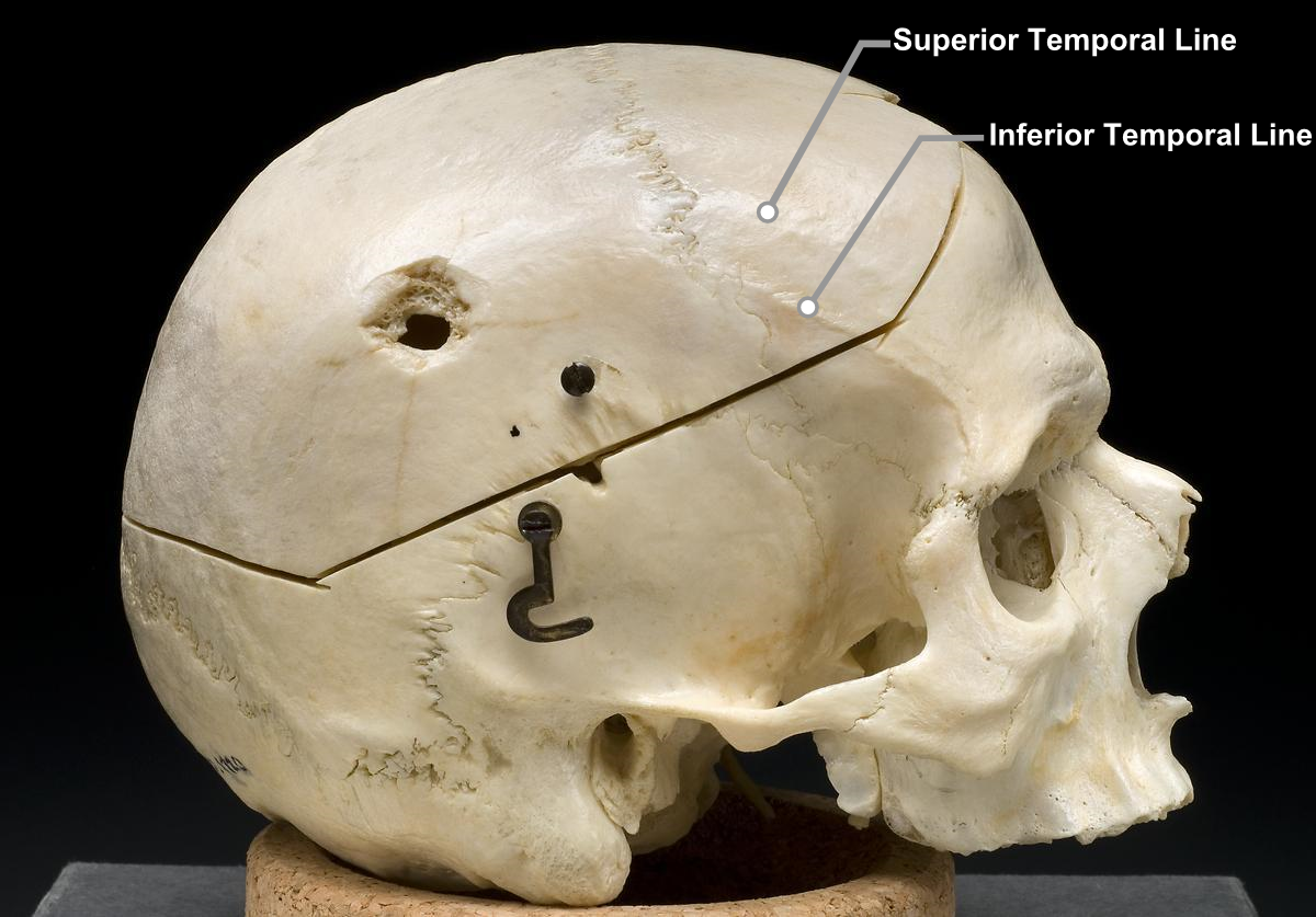 Temporal lines